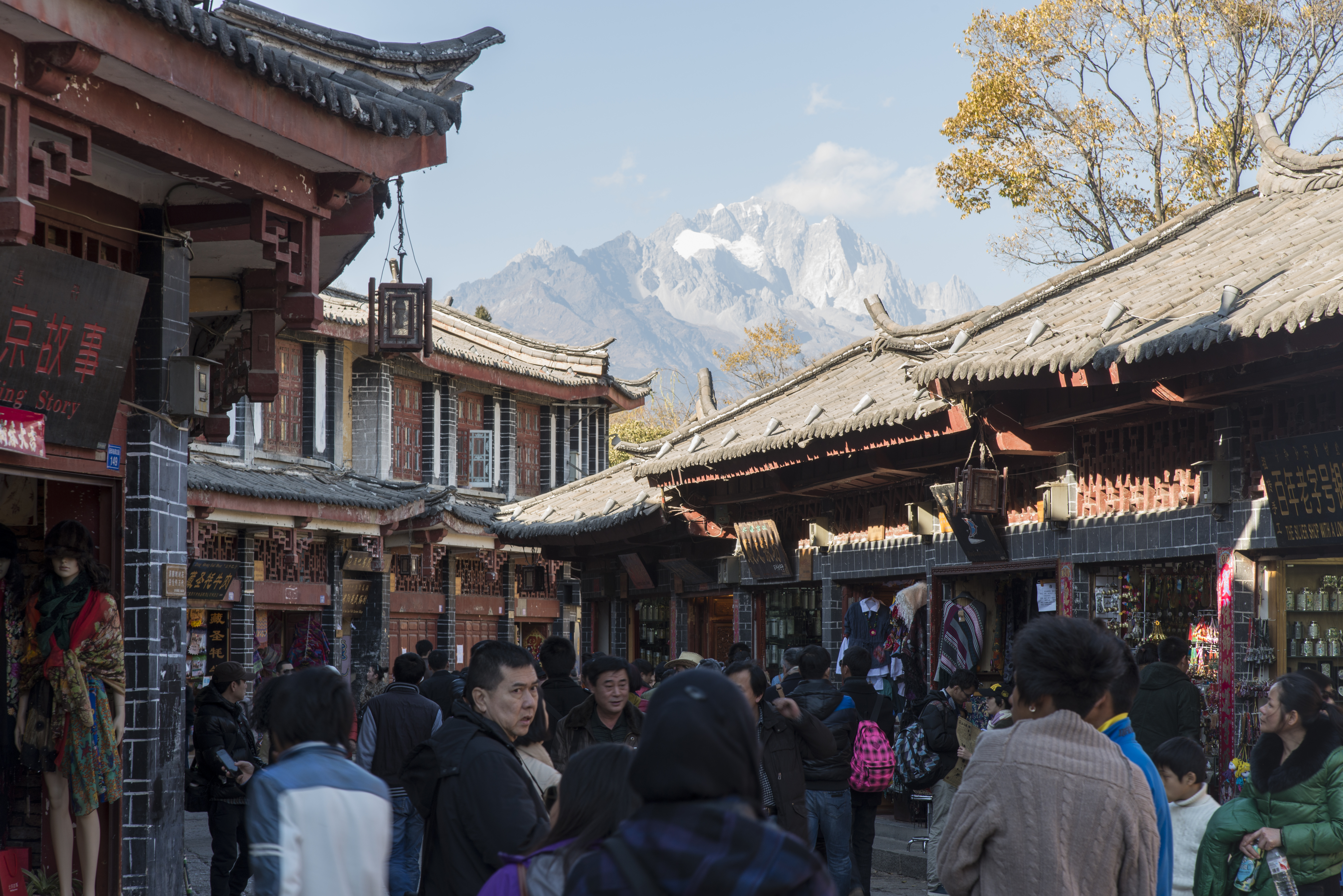 lijiang old town yunnan china yulong xueshan 2012